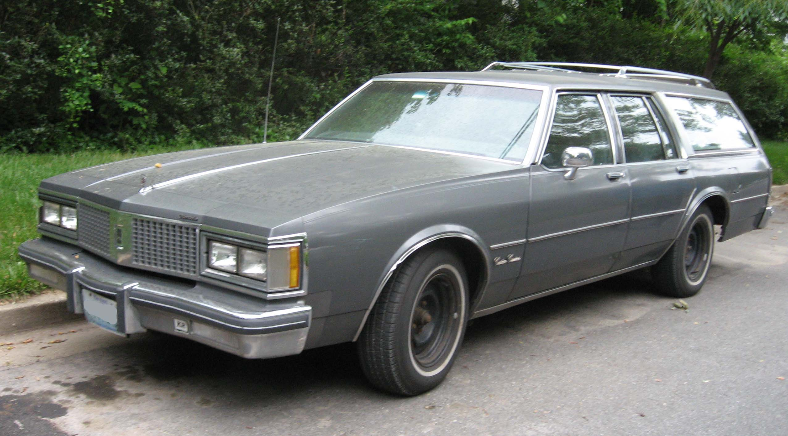 1987-1990 Oldsmobile Custom Cruiser photographed in USA.